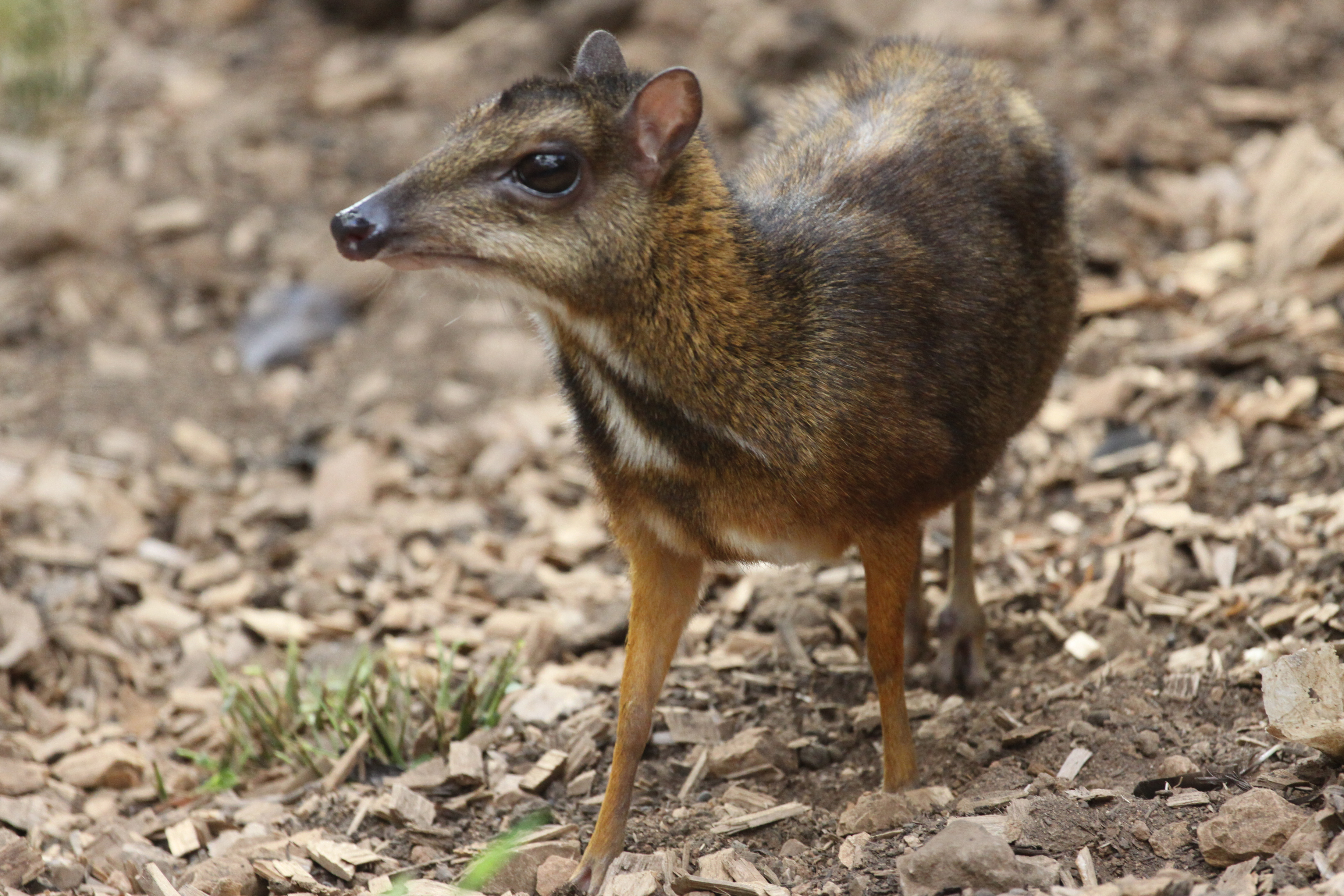 Tragulus Javanicus (Lesser Malay Mouse-deer) in the Jerusalem Zoo